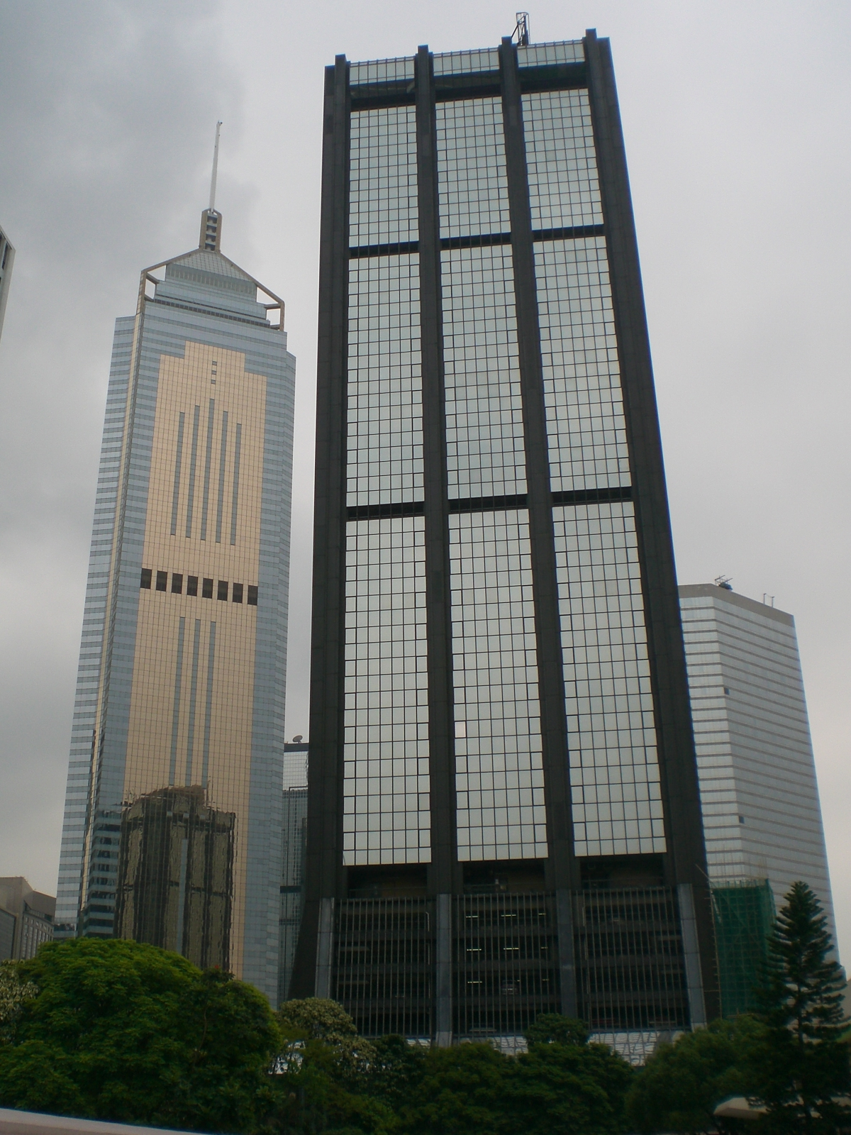 灣仔北行人平台上的鷹君中心及中環廣場 The buildings in Wan Chai north named Great Eagle Centre and Central Plaza, Hong Kong. Author= User:VictoriaOP